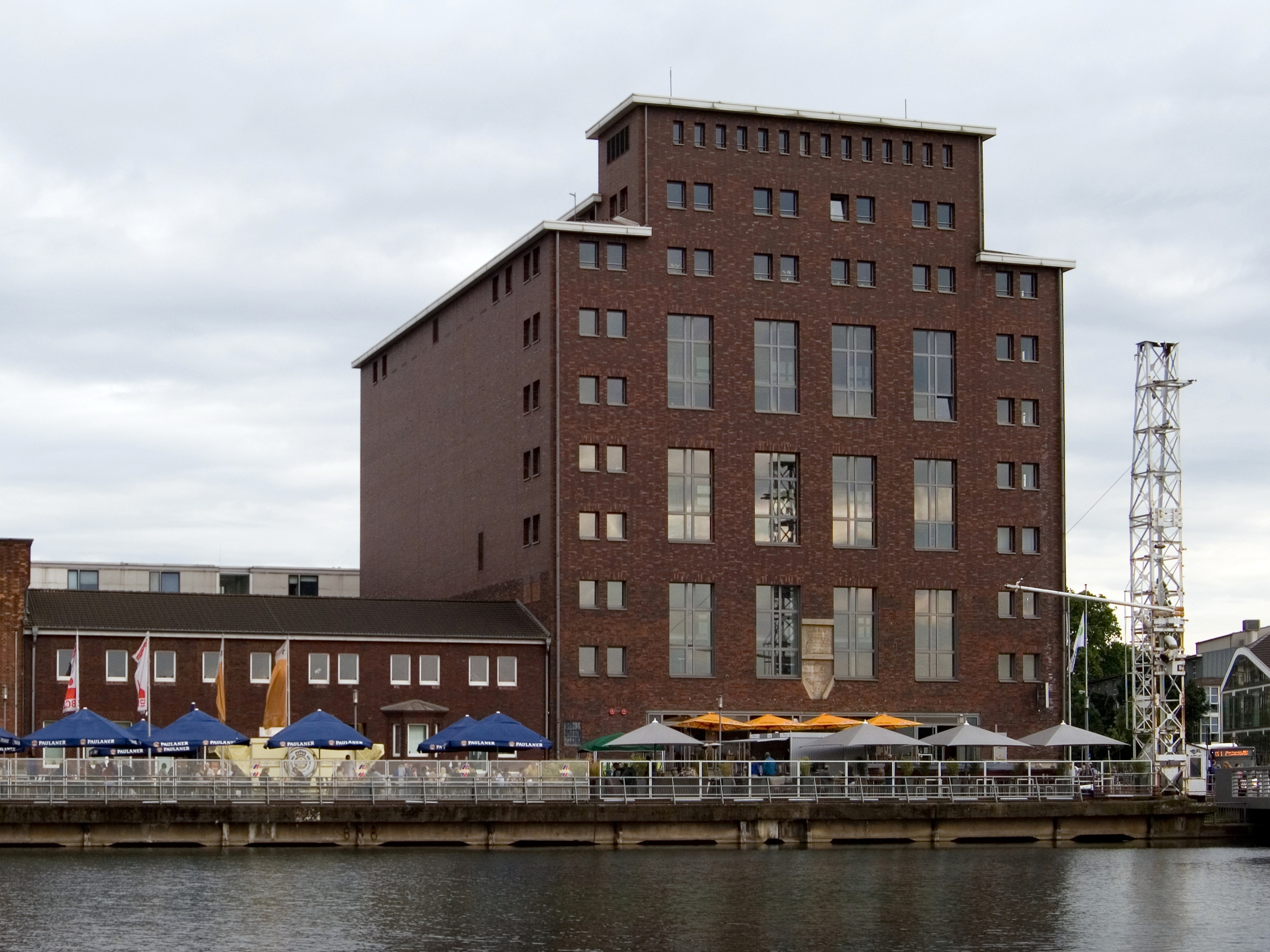 Duisburg (North Rhine-Westphalia, Germany) – Inner Harbour – silo Speicher Allgemeine This image shows a heritage building in Germany, located in the North Rhine-Westphalian city Duisburg (no. 378). This photograph was taken with a Nikon D3000.